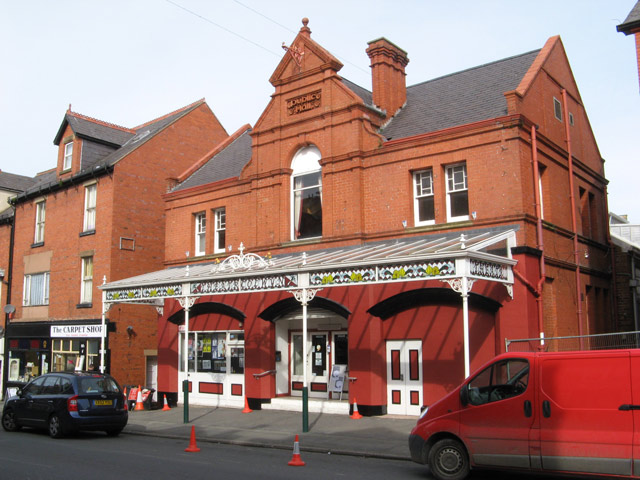 Theatr Colwyn The terra-cotta plaque in the gable proclaims the origin of this building as a Public Hall, in which capacity it offered entertainment and use as a drill hall for the Territorial Army. Under the name Rialto it became the town's first picture house. Dwindling fortunes brought closure before it was reborn in 1959 as the Prince of Wales Theatre in the ownership of the borough council.